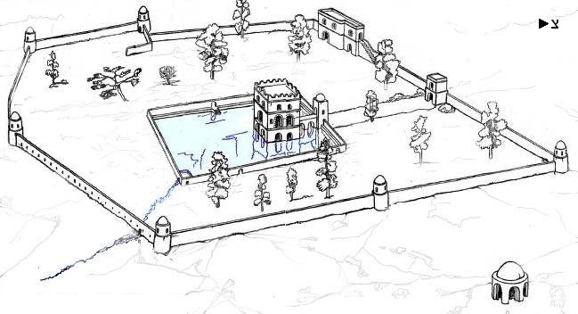 Fasiledes Bath